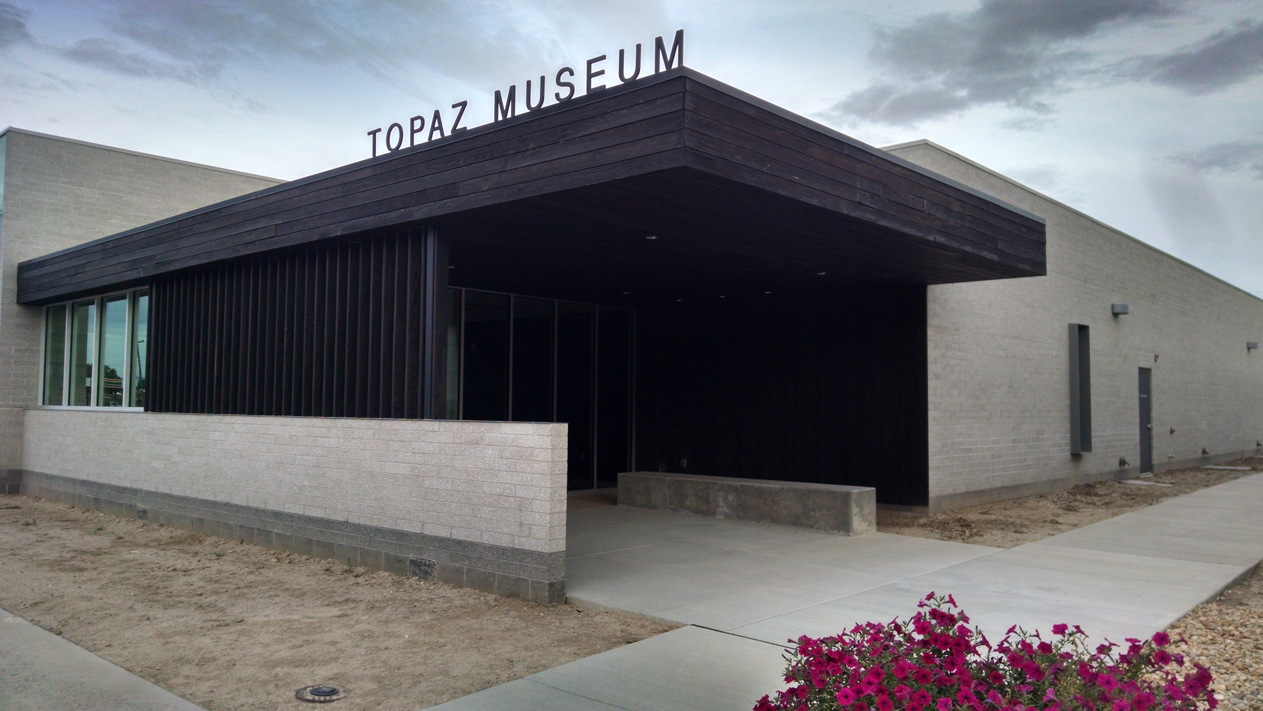 Site of the (future) Topaz Museum in Delta, Utah.